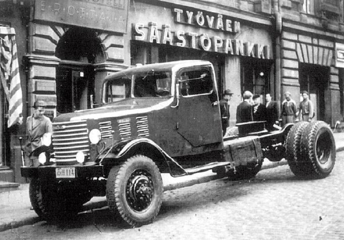 Vanaja VaWh lorry, modified from White M2 Half Track vehicle in front of Vanajan Autotehdas' main office in Helsinki.